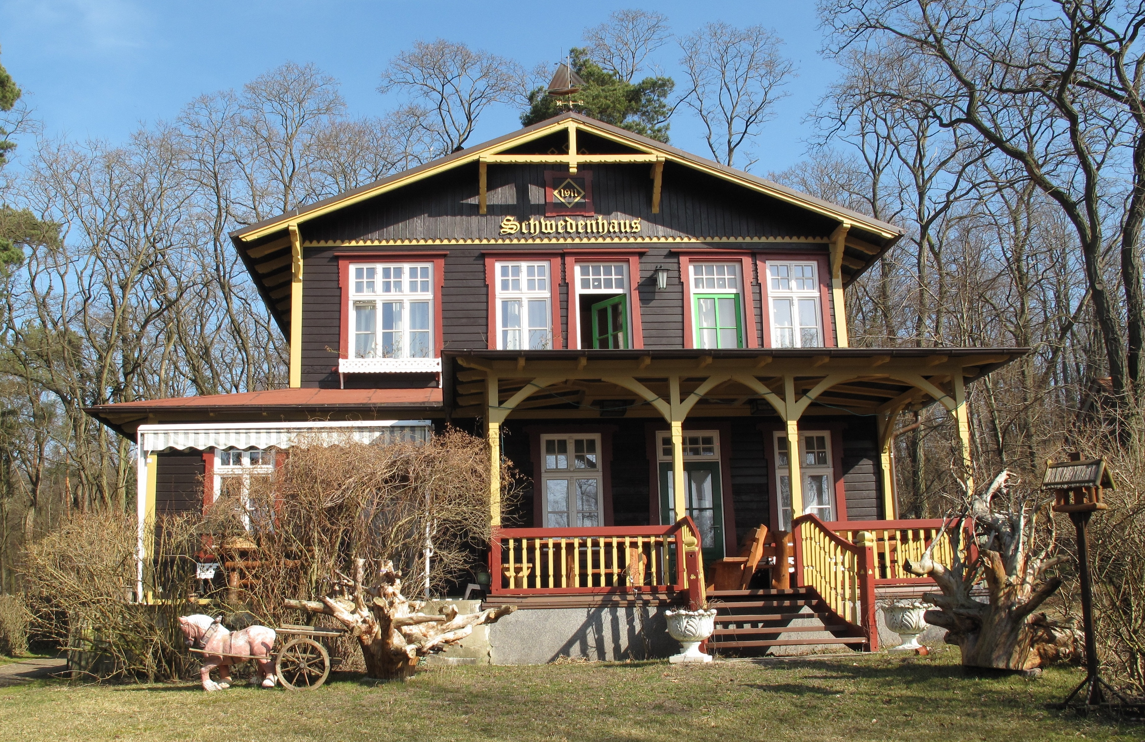 „Schwedenhaus“, built in 1911, in Theresienhof. Theresienhof is a part (settlement, estate; german: Wohnplatz) of Bad Saarow, District Oder-Spree, Brandenburg, Germany. Originating as the watermill Pieskow at the eastern bank of the Scharmützelsee the Theresienhof was an agricultural establishment for a long time. Under the name Theresienhof it was first mentioned in documents in 1851. Since 1918 it was used as recreation resort, holiday home or educational training center. In 2008 the main building (a villa or manor house, often referred to as a castle) was demolished. The striking villa in Swedish wooden style, named „Schwedenhaus“ (built in 1911 by the porcelain manufacturer Paul Rudolph Schomburg for his Swedish wife Eleonora Ida Paulcen), was preserved. A holiday village, named Schlosspark Bad Saarow, with about 140 holiday houses and accomodations in scandinavian style has been created on the site of the Theresienhof since 2008.